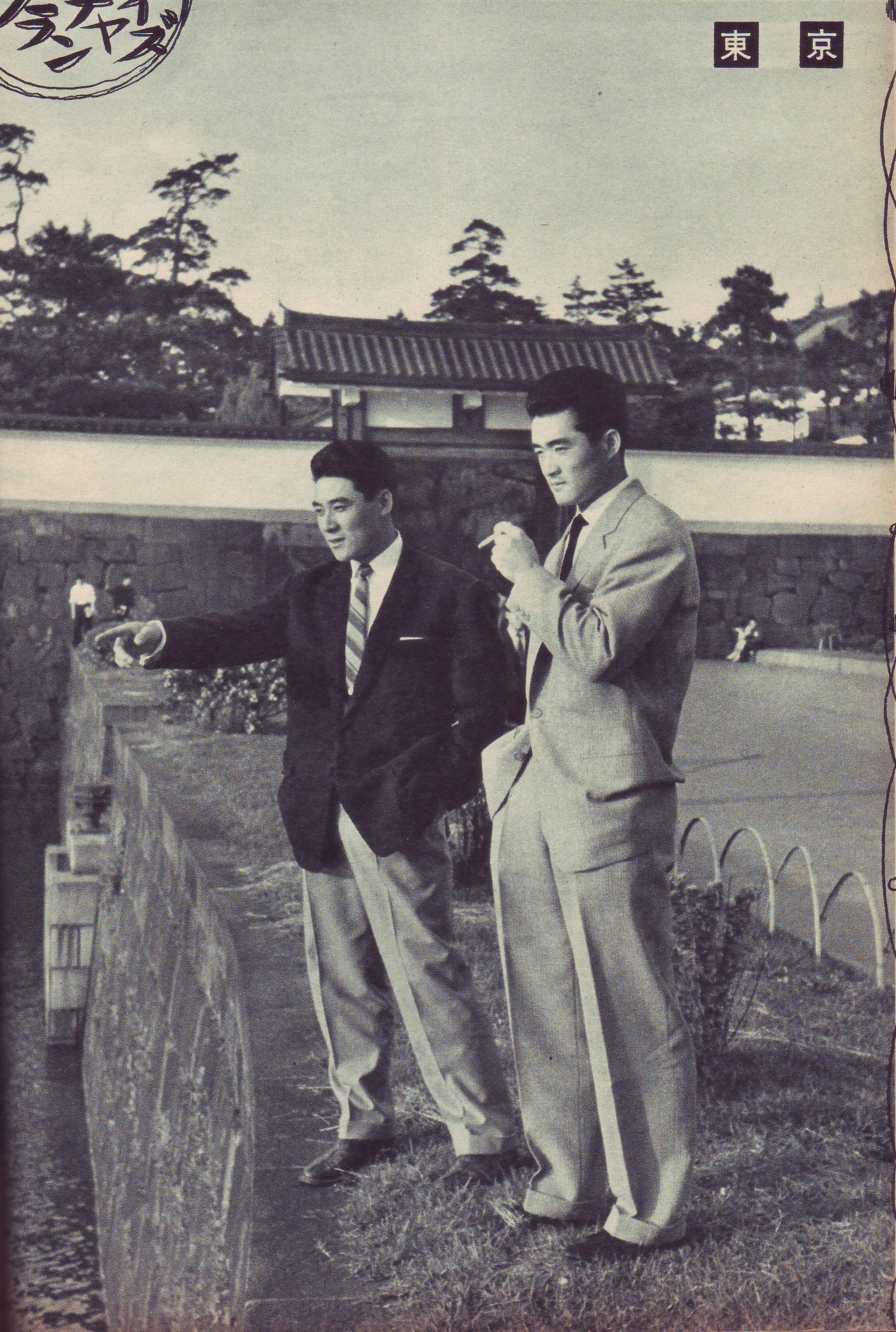 Shigeo Nagashima and Shojiro Namba (left. Yomiuri Giants). taken in 1959.